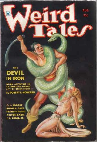 Cover of the pulp magazine Weird Tales (August 1934, vol. 24, no. 2) featuring The Devil in Iron by Robert E. Howard. Cover by Margaret Brundage.